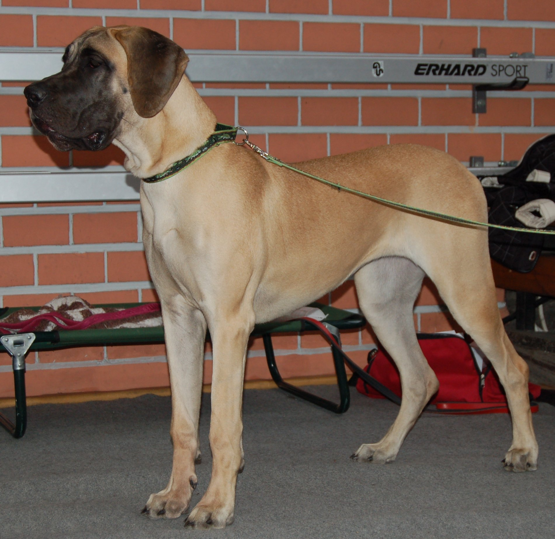 Great Dane during dogs show in Katowice, Poland